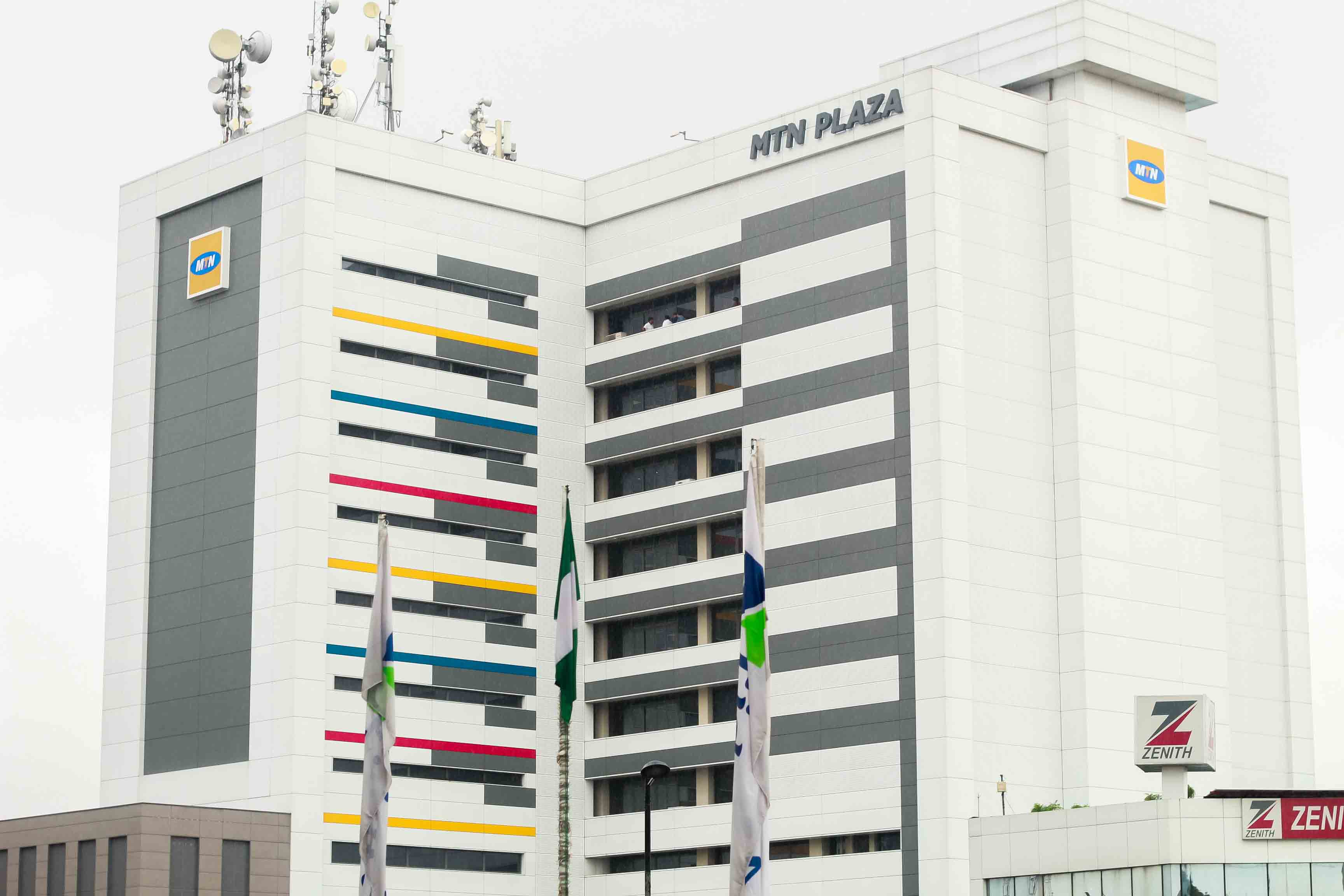 MTN PLAZA, BESIDE FALOMO, LAGOS